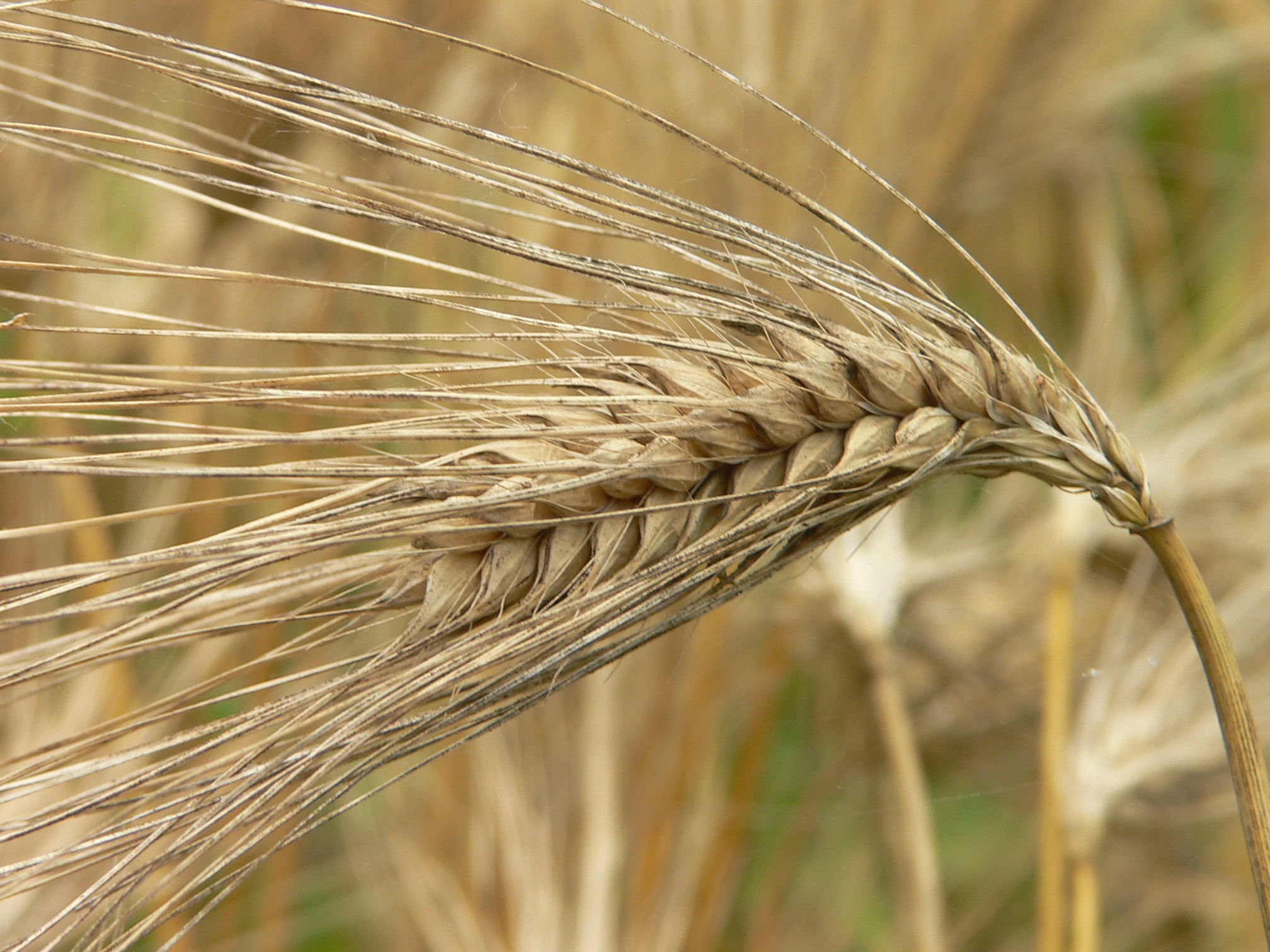 Thanks to Dirk Huijssoon for the correction ;)